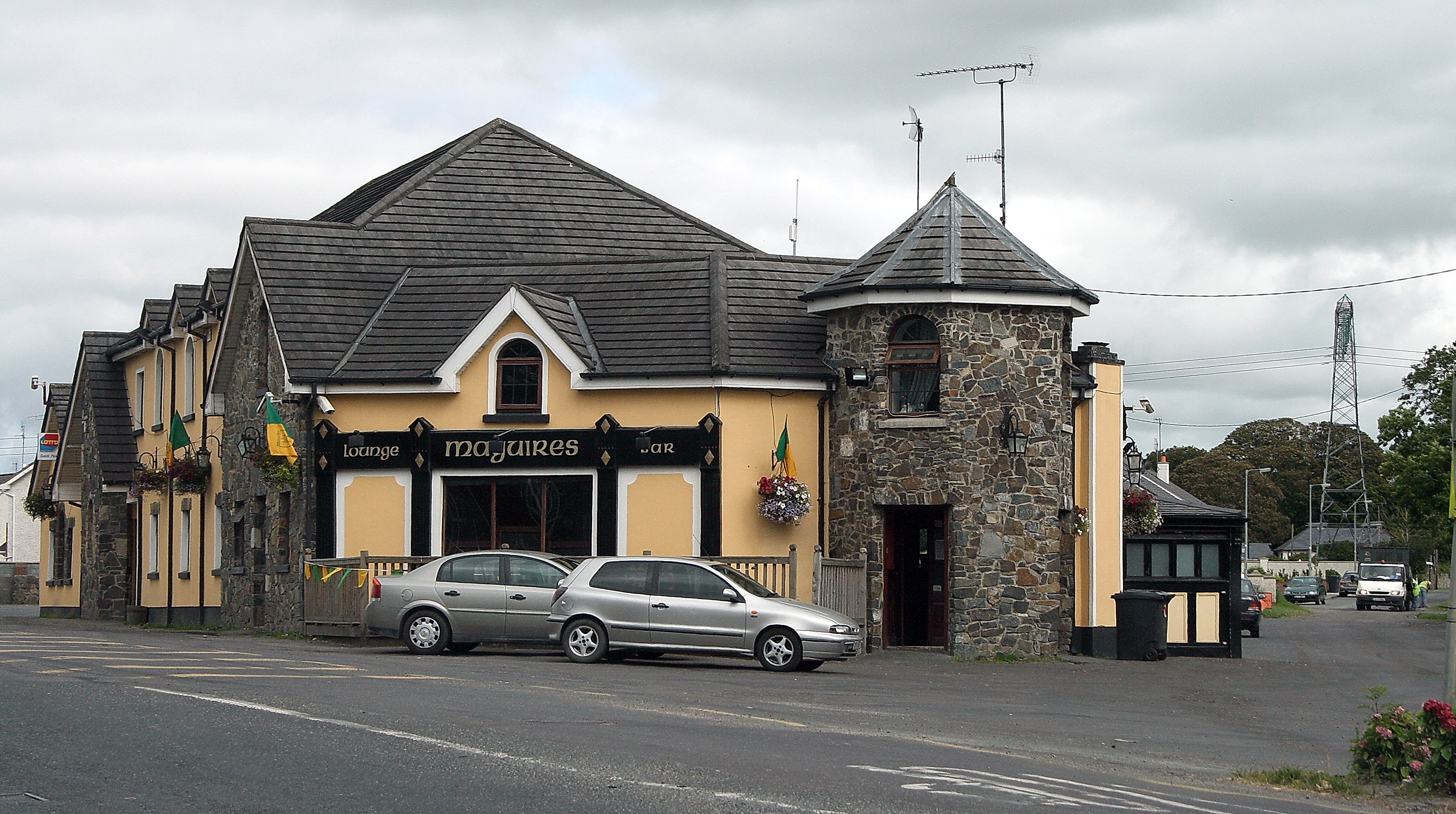 Kentstown, County Meath (2), near to Walterstown, Meath, Ireland. Maguires pub.